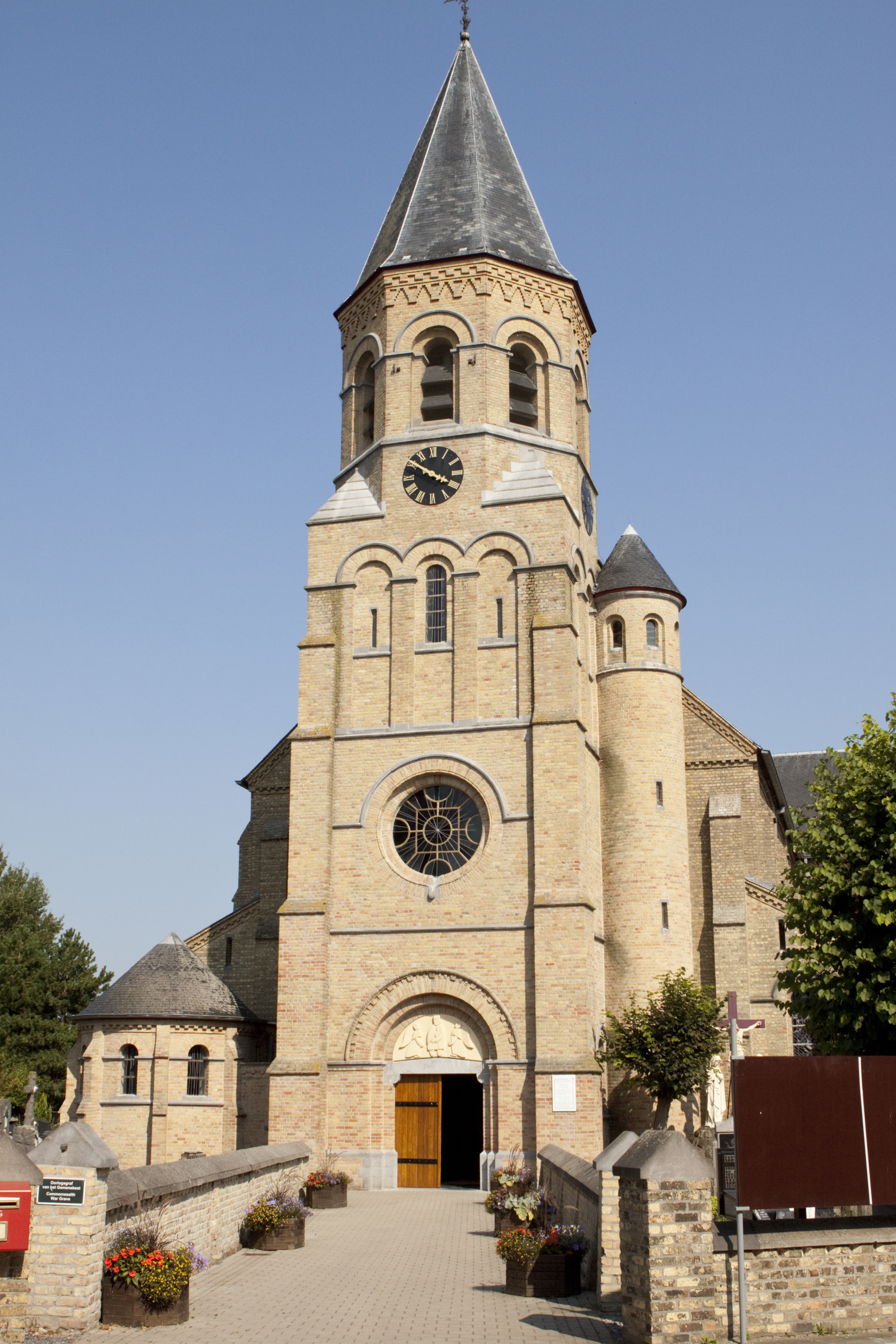 Voormezele Churchyard